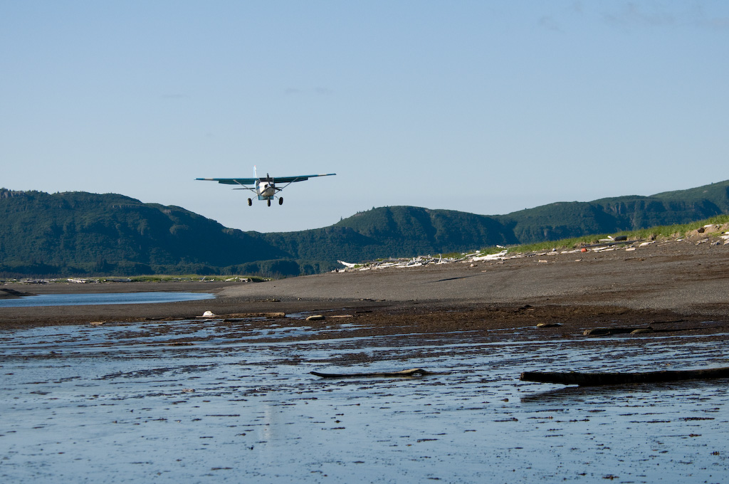 Bush plane coming in for a landing on the beach, Hallo Bay, Katmai National Park, Alaska